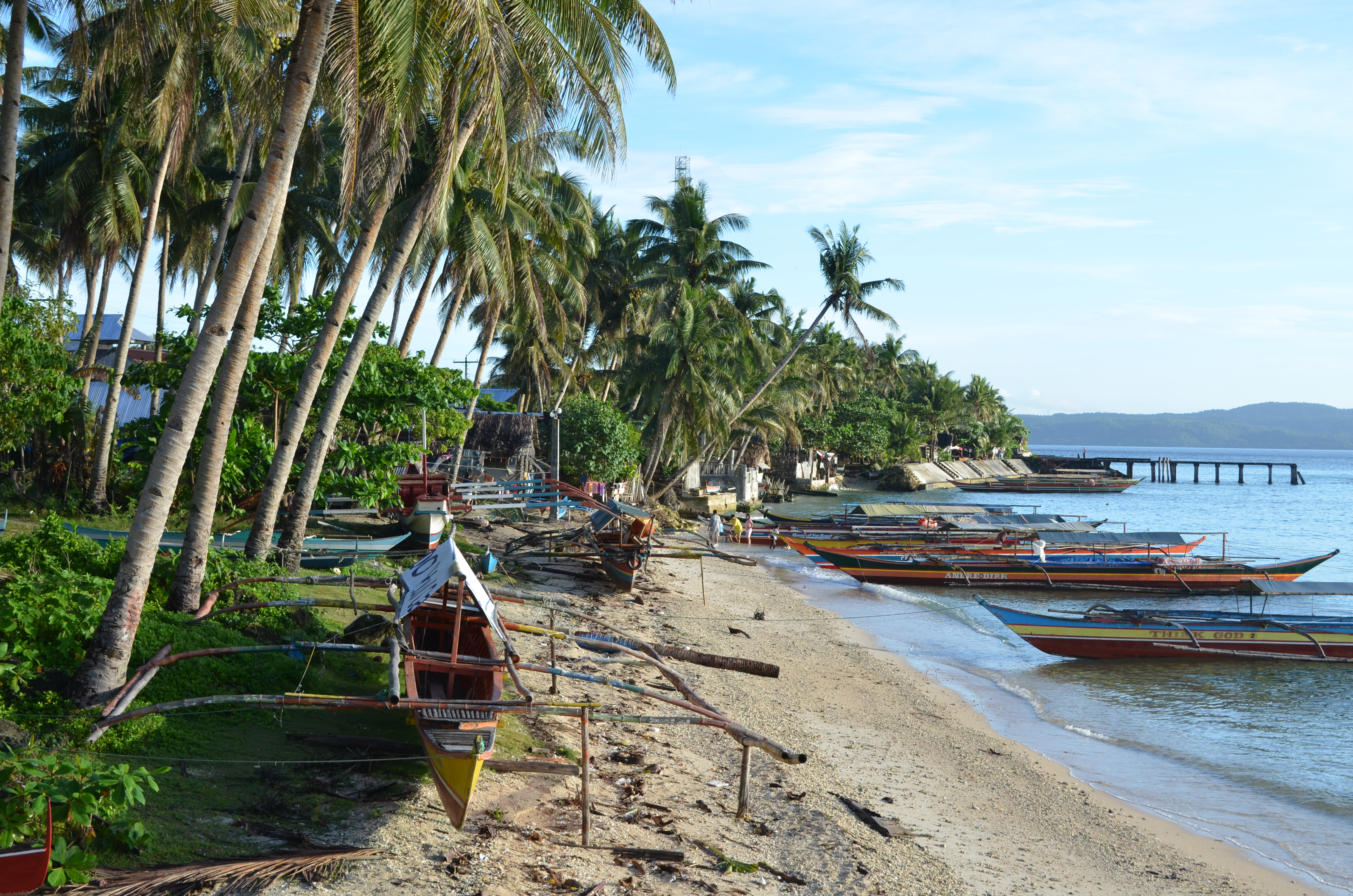 Balicuartro, San Antonio, Northern Samar, Philippines